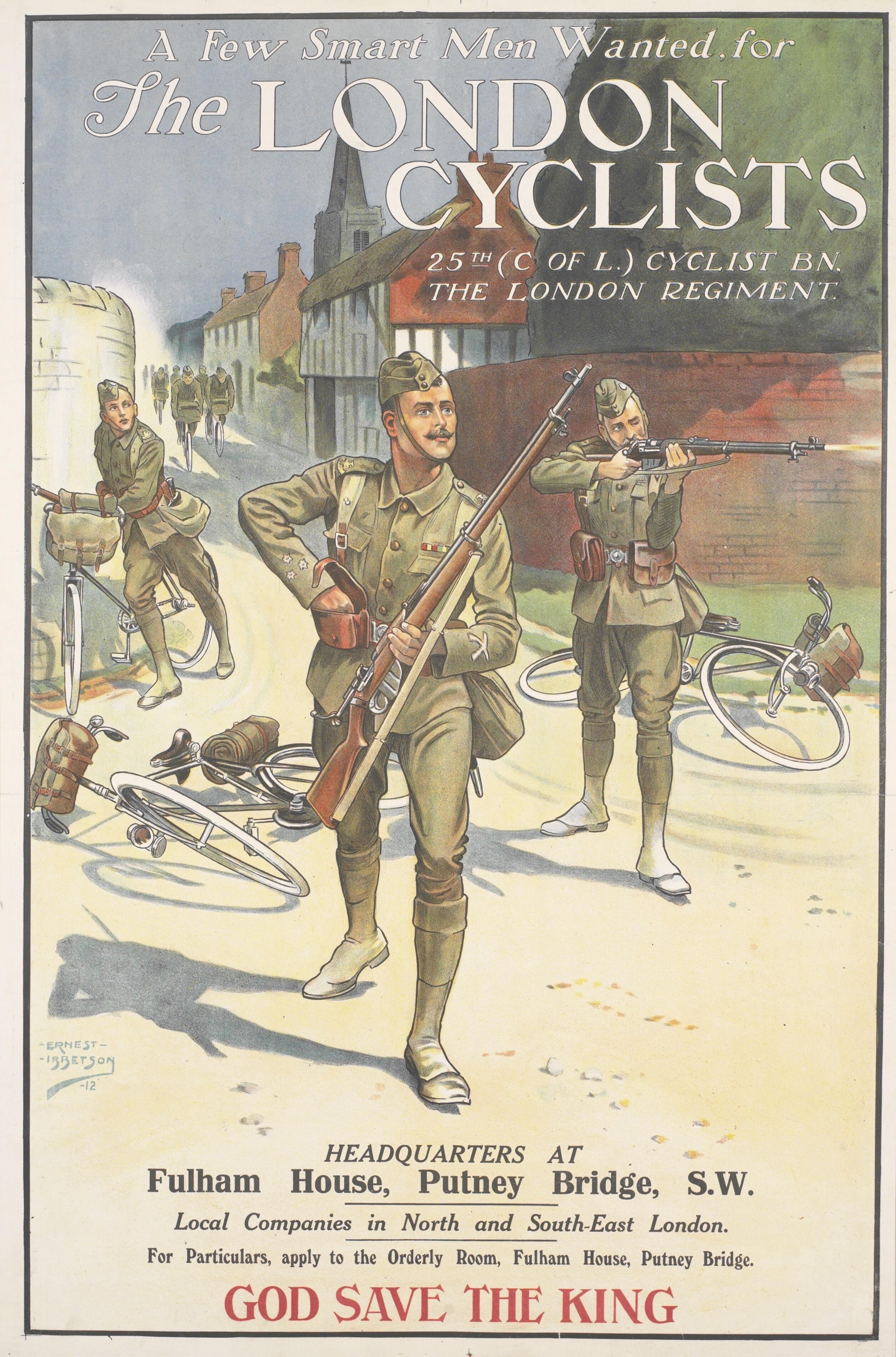 The London Cyclists whole: the image occupies the whole, with the title and text integrated and positioned in the upper quarter, in white. Further text is integrated and positioned in the lower quarter, in black and in red. All held within a black border. image: a battle scene set in a British village street, featuring a dismounted Territorial Army cyclist, in uniform and chin-strapped forage cap, loading his rifle. Behind him stand two more members of the battalion, one firing his rifle, the other placed his bicycle against a wall. In the background, the remainder of the battalion come to join them. text: A Few Smart Men Wanted, for The LONDON CYCLISTS 25TH (C OF L.) CYCLIST BN, THE LONDON REGIMENT. ERNEST IBBETSON -12 HEADQUARTERS AT Fulham House, Putney Bridge, S.W. Local Companies in North and South-East London. For Particulars, apply to the Orderly Room, Fulham House, Putney Bridge. GOD SAVE THE KING